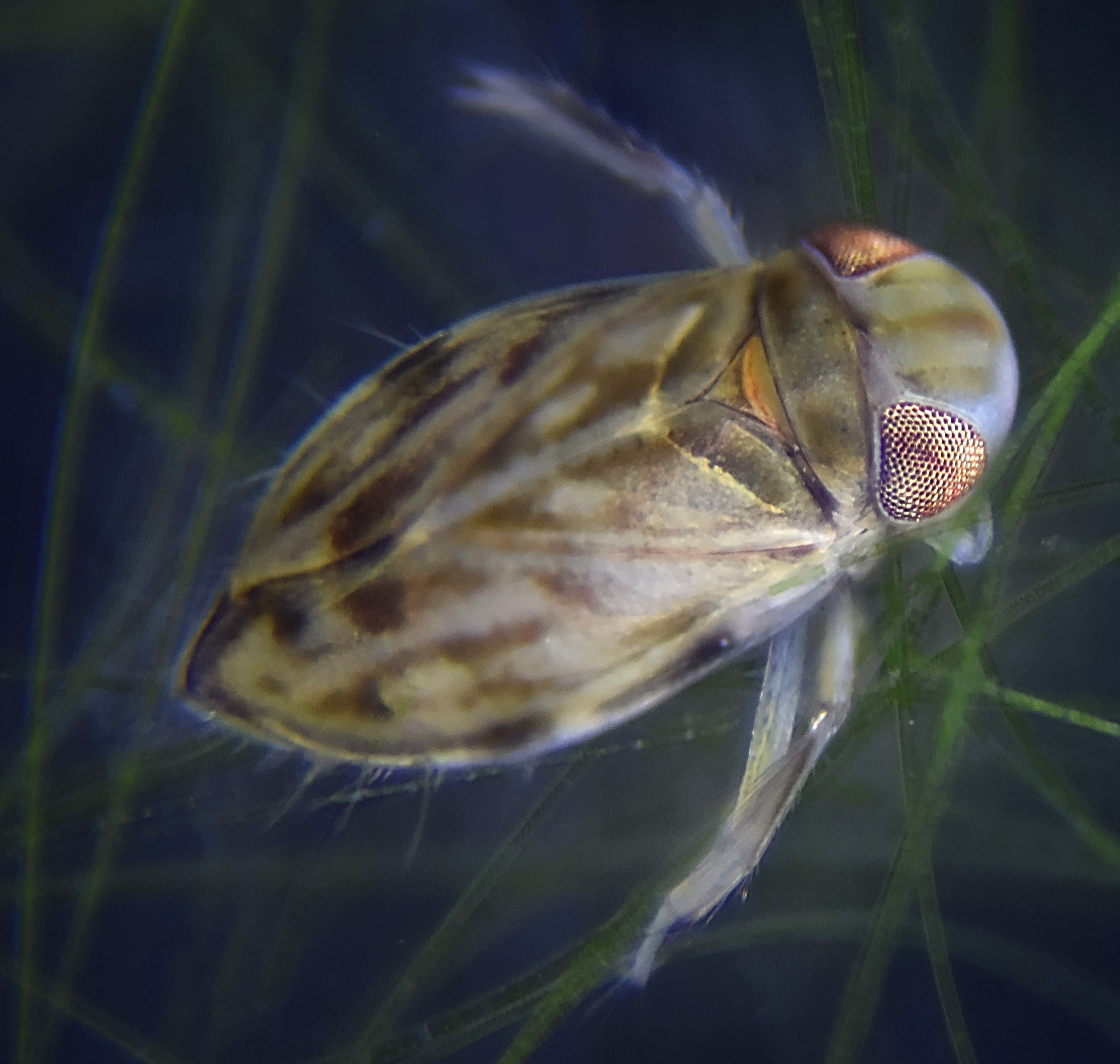 Focus stack of dorsal view of a live Micronecta scholtzi